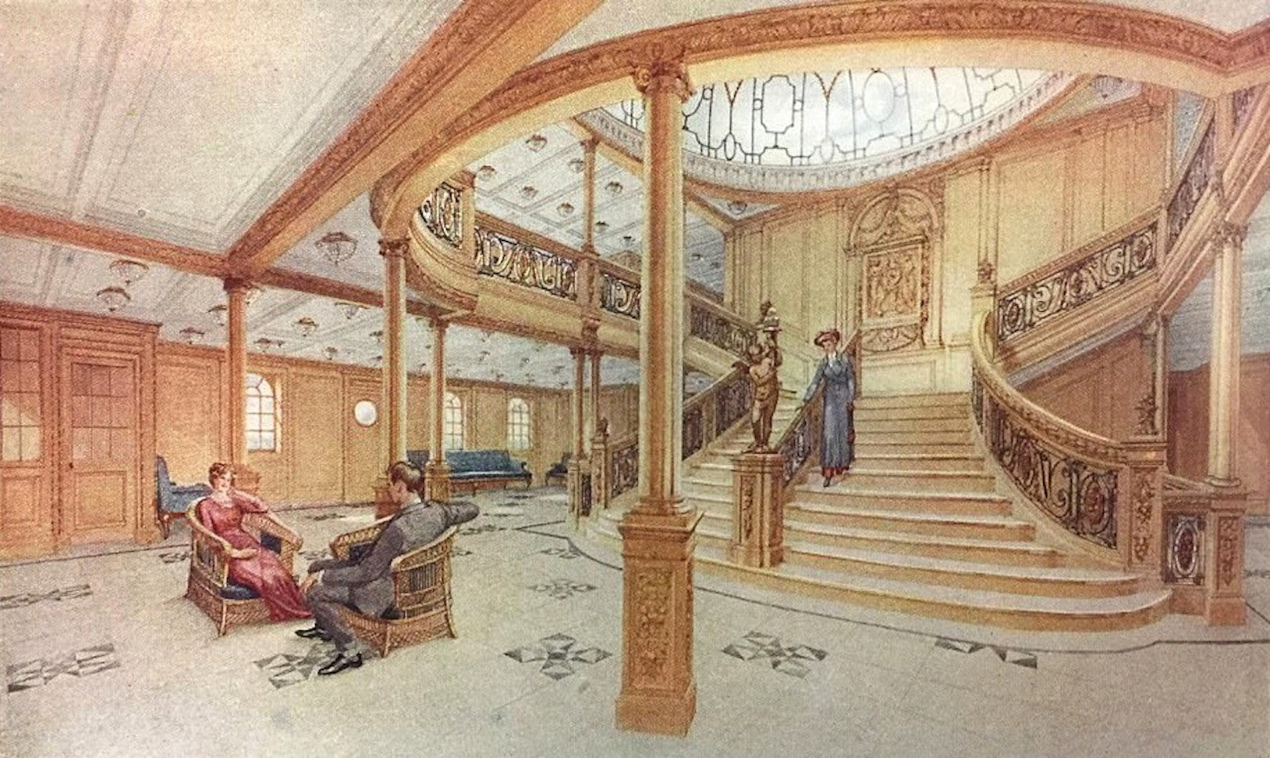 Illustration of the "Main Staircase" contained in the the Olympic & Titanic White Star Line joint brochure.